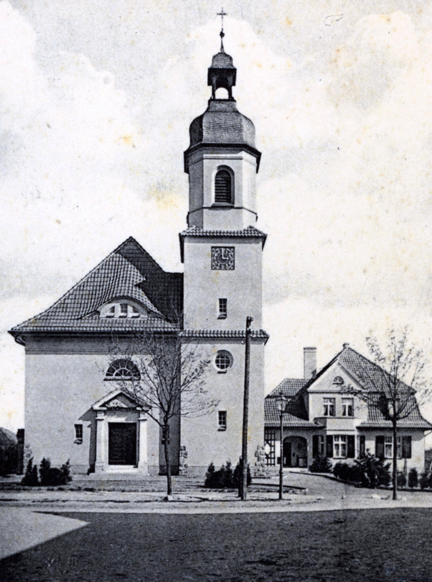 Church of Niederlehme in 1916